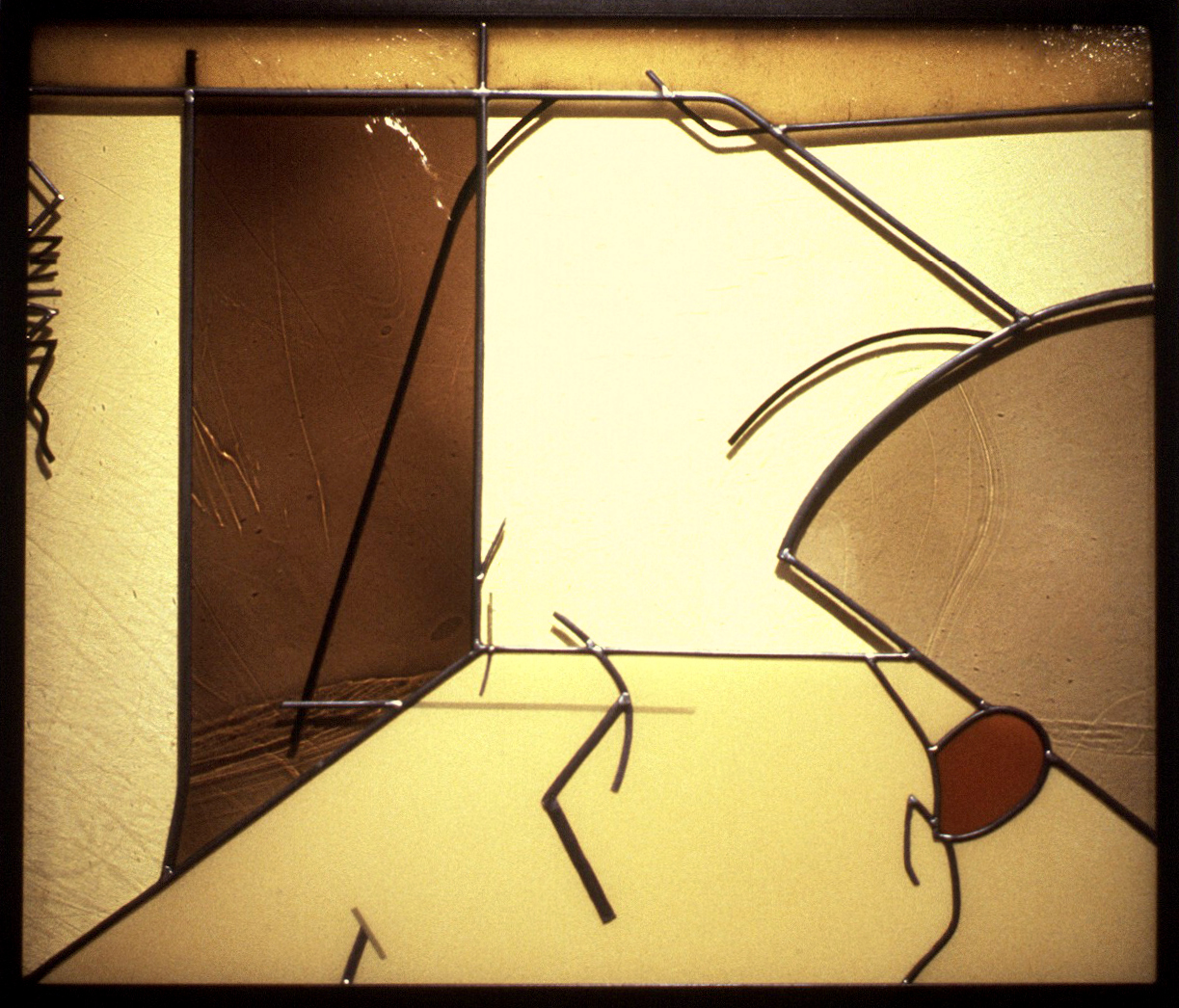 "Composition 55" — by Robert Kehlmann (1979). Opaque leaded glass panel. Toledo Museum of Art